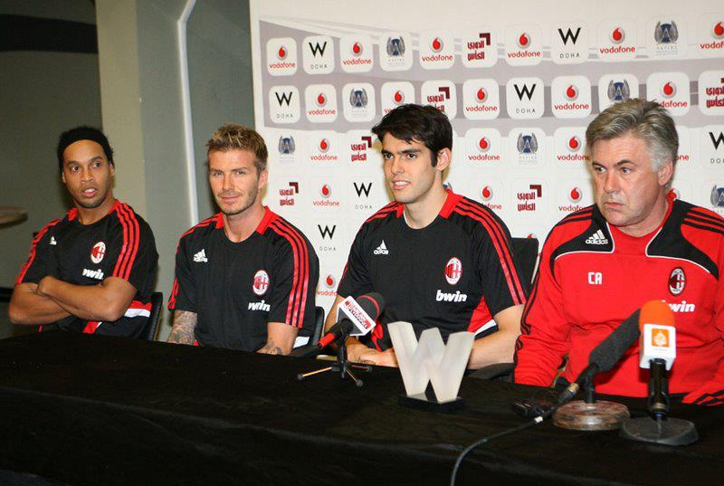 AC milan Team at press conference